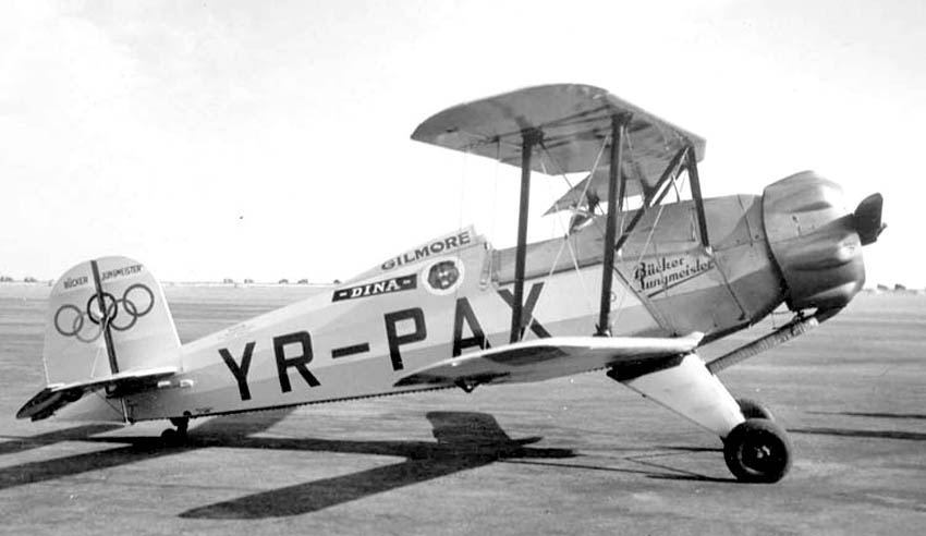 Alex Papana's acrobatic plane at the 1938 Oakland air races.